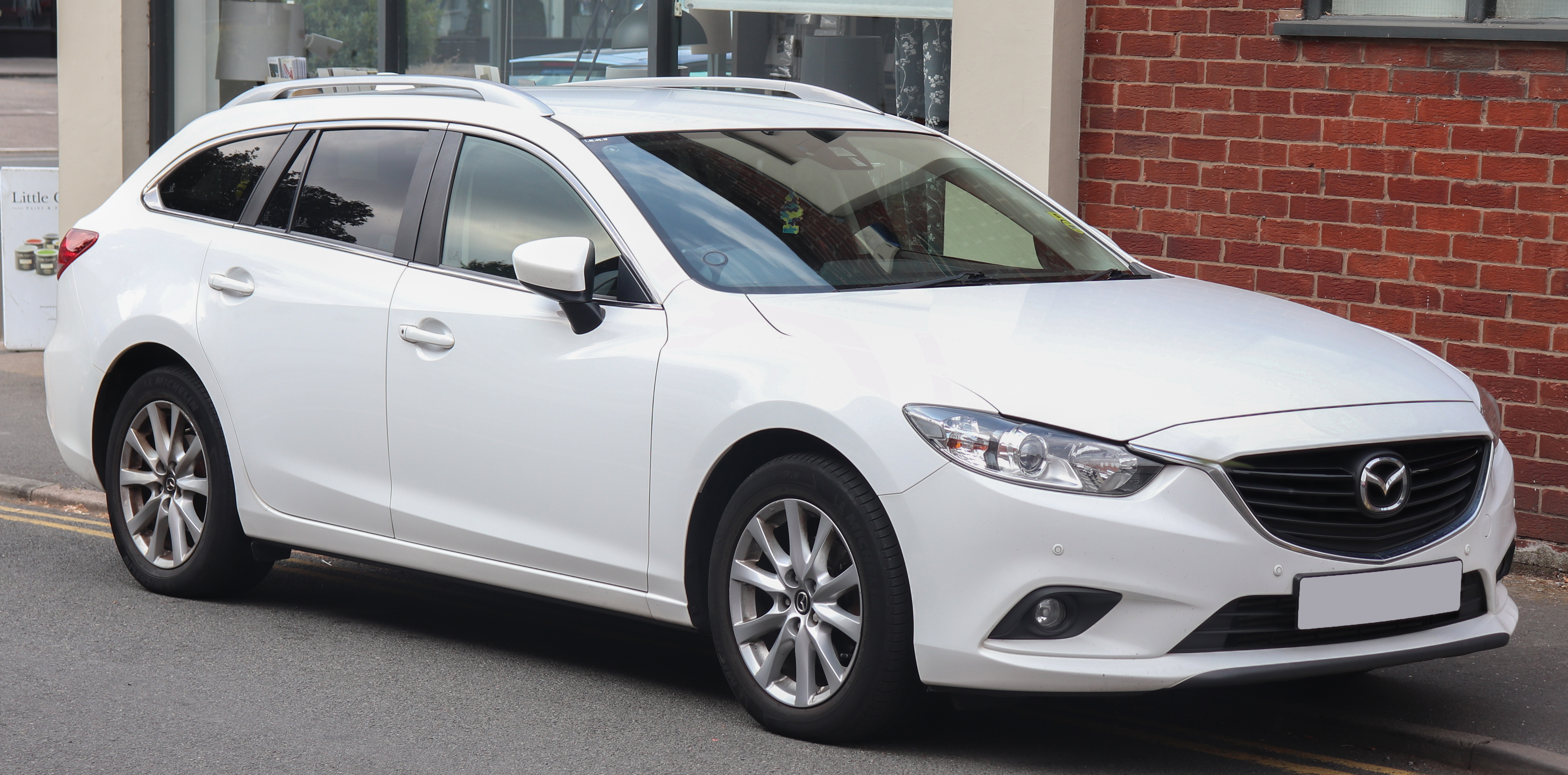 2014 Mazda6 SE-L Diesel Estate 2.2 Front Taken in Warwick